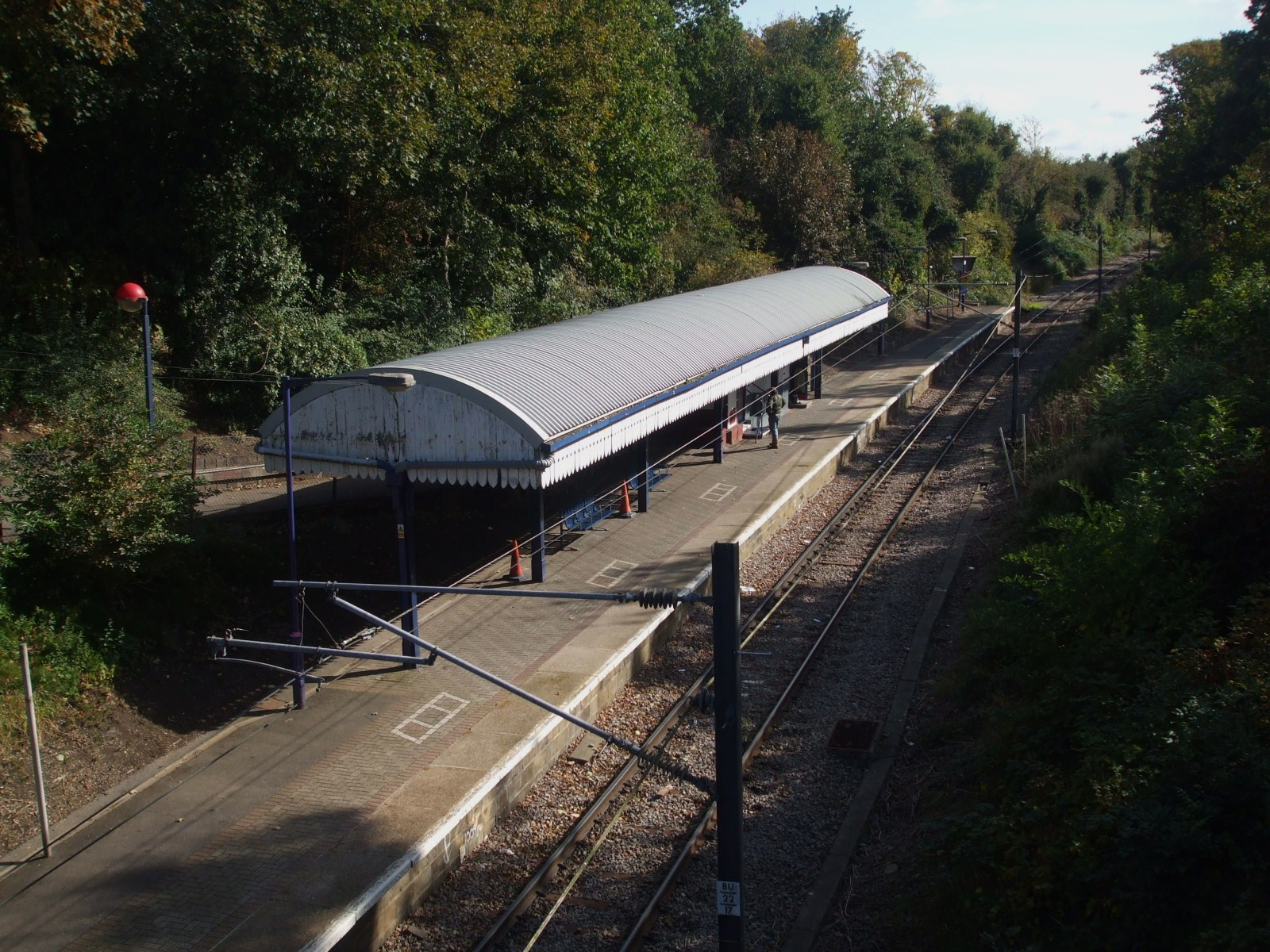 Emerson Park station looking east from footbridge